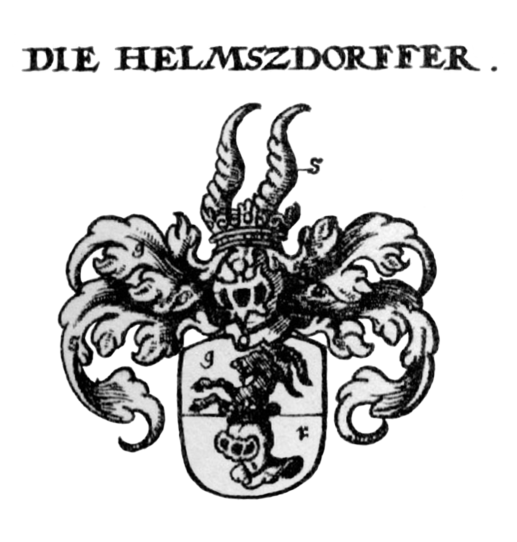 Coat of arms of Helmsdorf